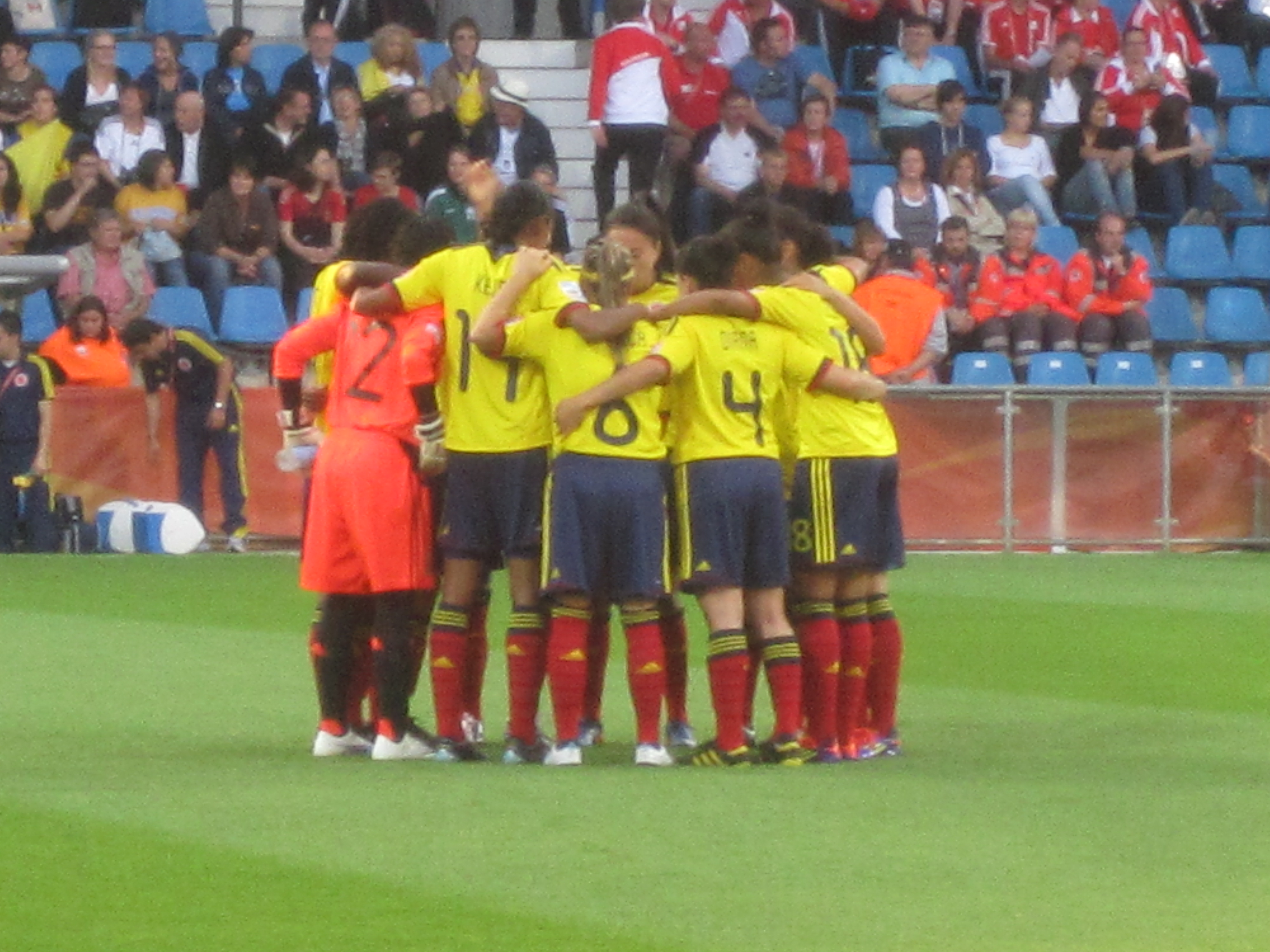 North Korea - Colombia 0:0, 2011 FIFA Women's World Cup. Colombia team